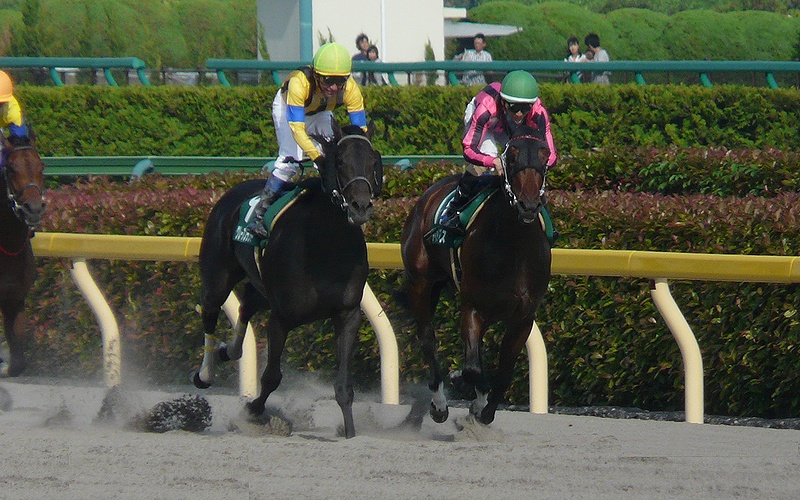 I-am-actress20110604